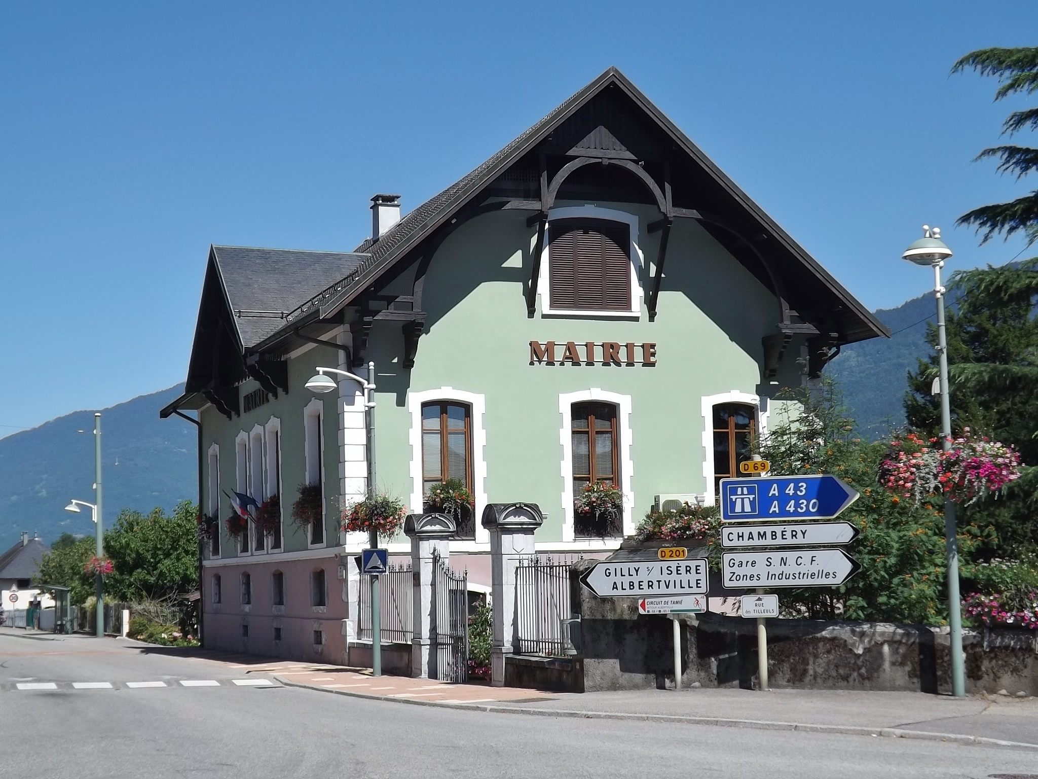 Sight of the French commune of Frontenex city hall, between Chambéry and Albertville in Savoie.